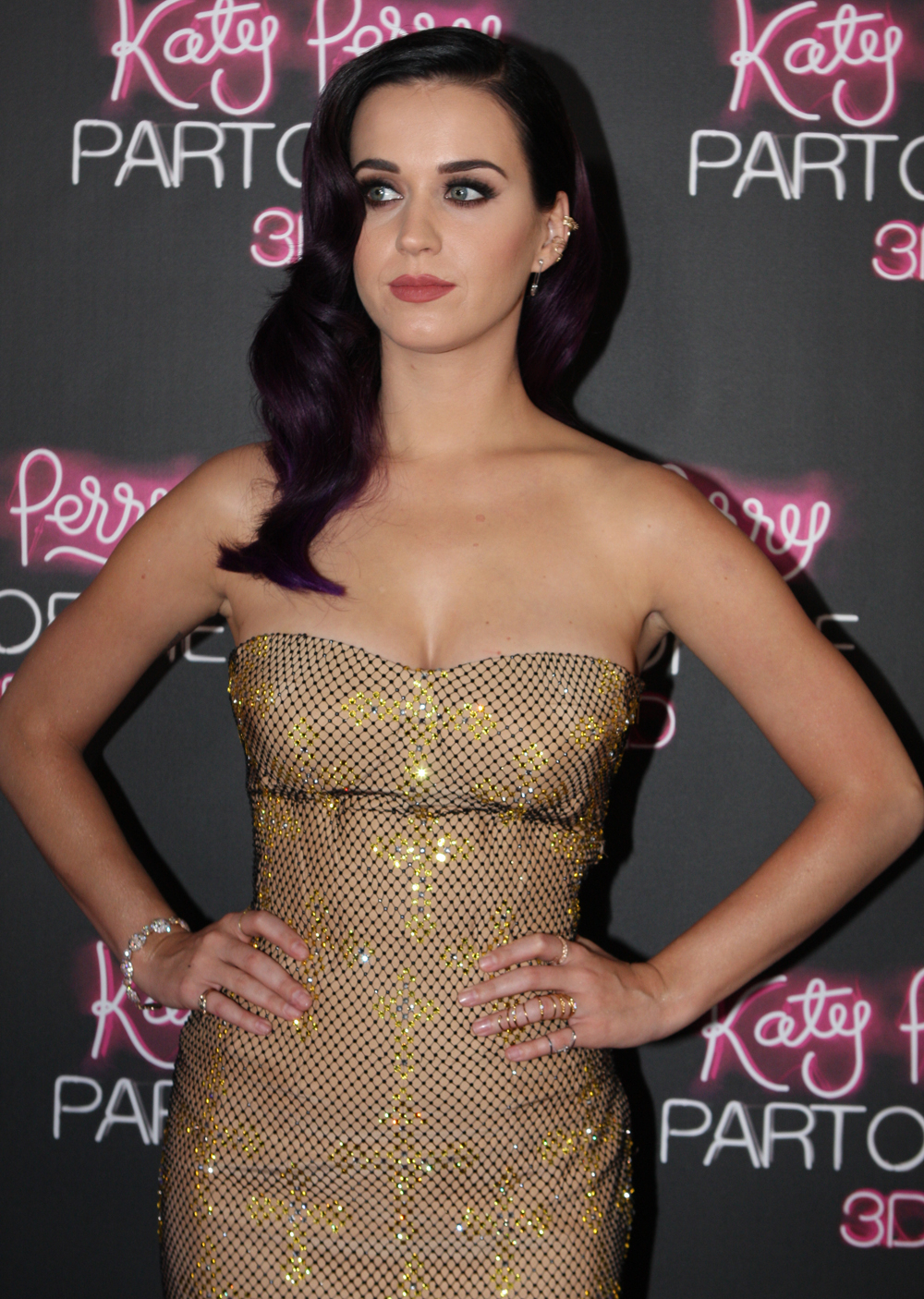 Katy Perry: Part Of Me Australian Premiere in June 2012.